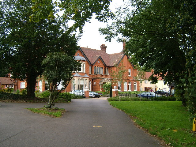 Bocking Place, Courtauld Road, Braintree. Former home of the Courtauld family famous for bringing the textile industry to Braintree in the early 19th century. This Victorian building has recently been developed into apartments.